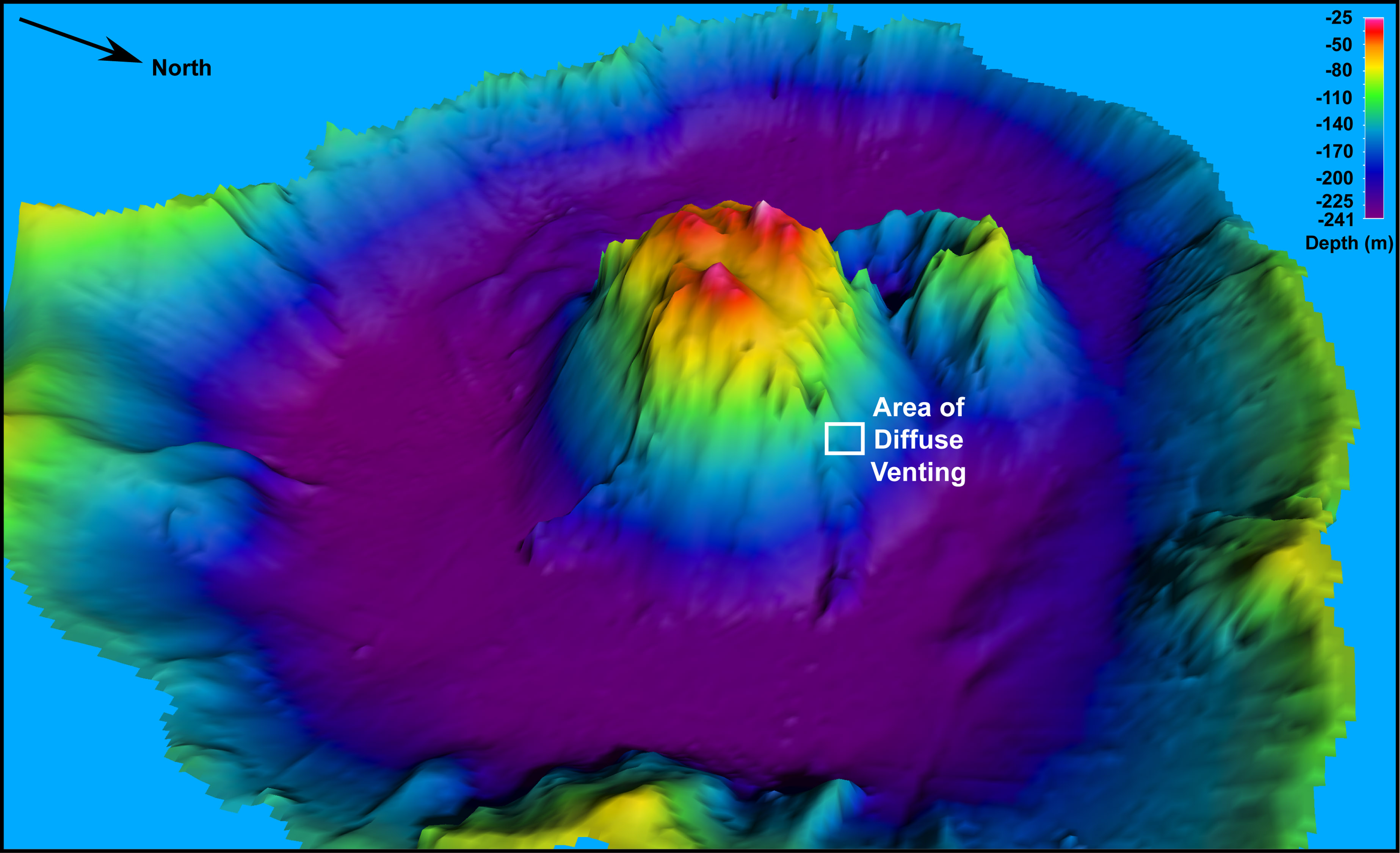 3-D perspective view of the bathymetry within Maug caldera.